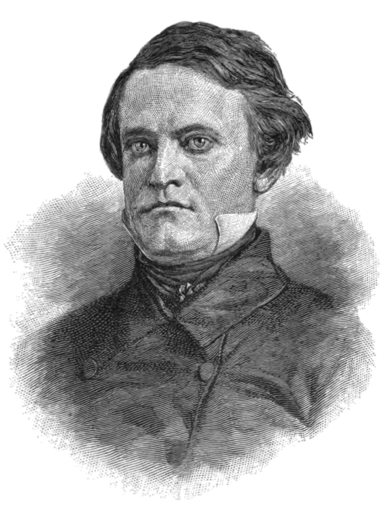 U.S. Vice-President John Breckinridge